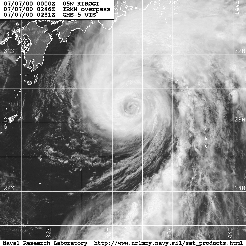 Typhoon Kirogi off the southern coast of Japan on July 7, 2000